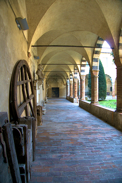 Cloisters of the former Convent of St. Augustine, Crema, Province of Cremona, Italy